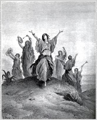 Jephtha's doughter, 1865, by Gustave Doré